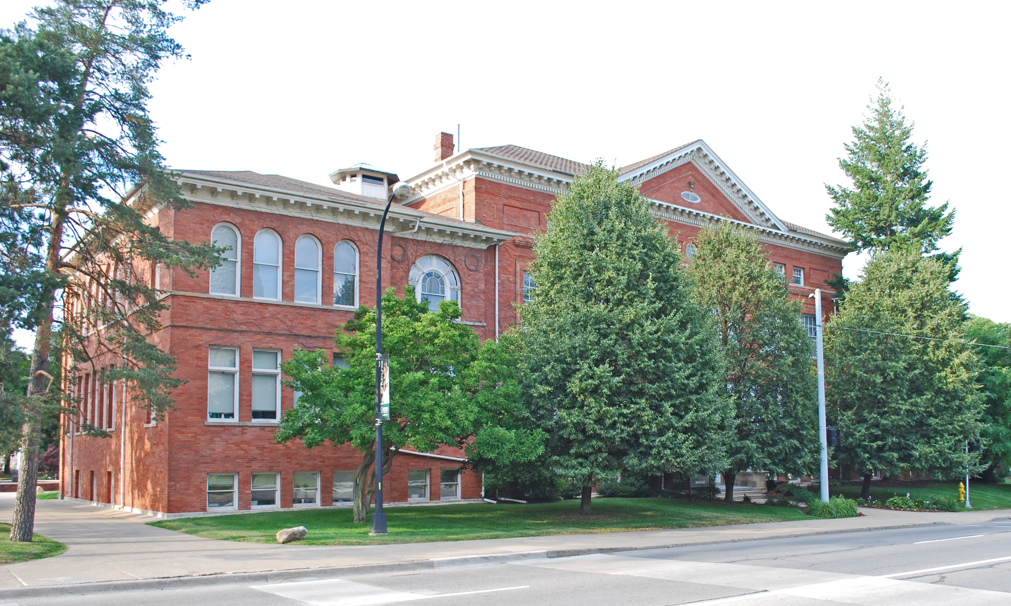 Welch Hall at Eastern Michigan University, Ypsilanti MI